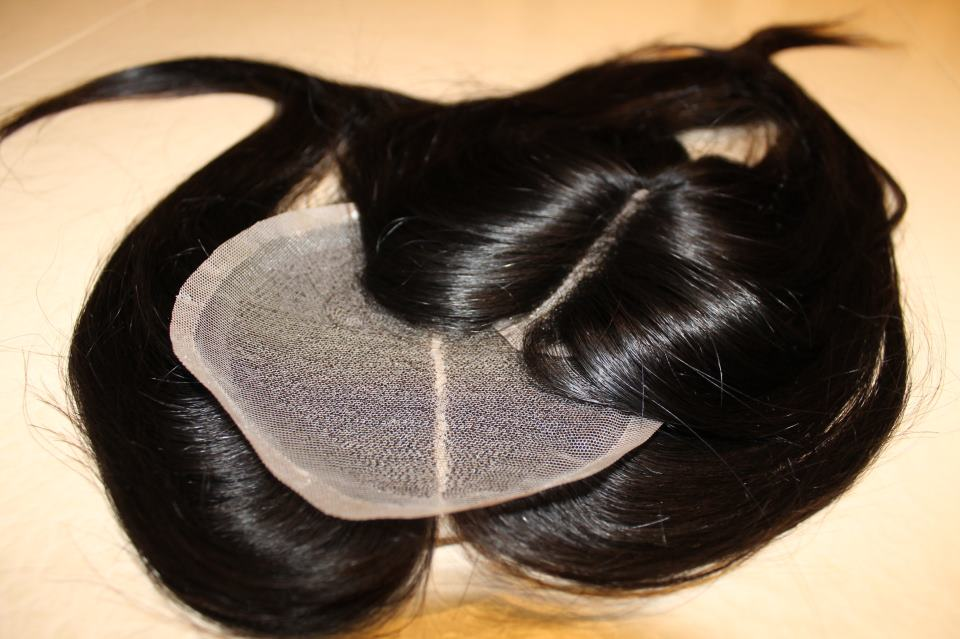 A lace closure to make a full weave look more natural